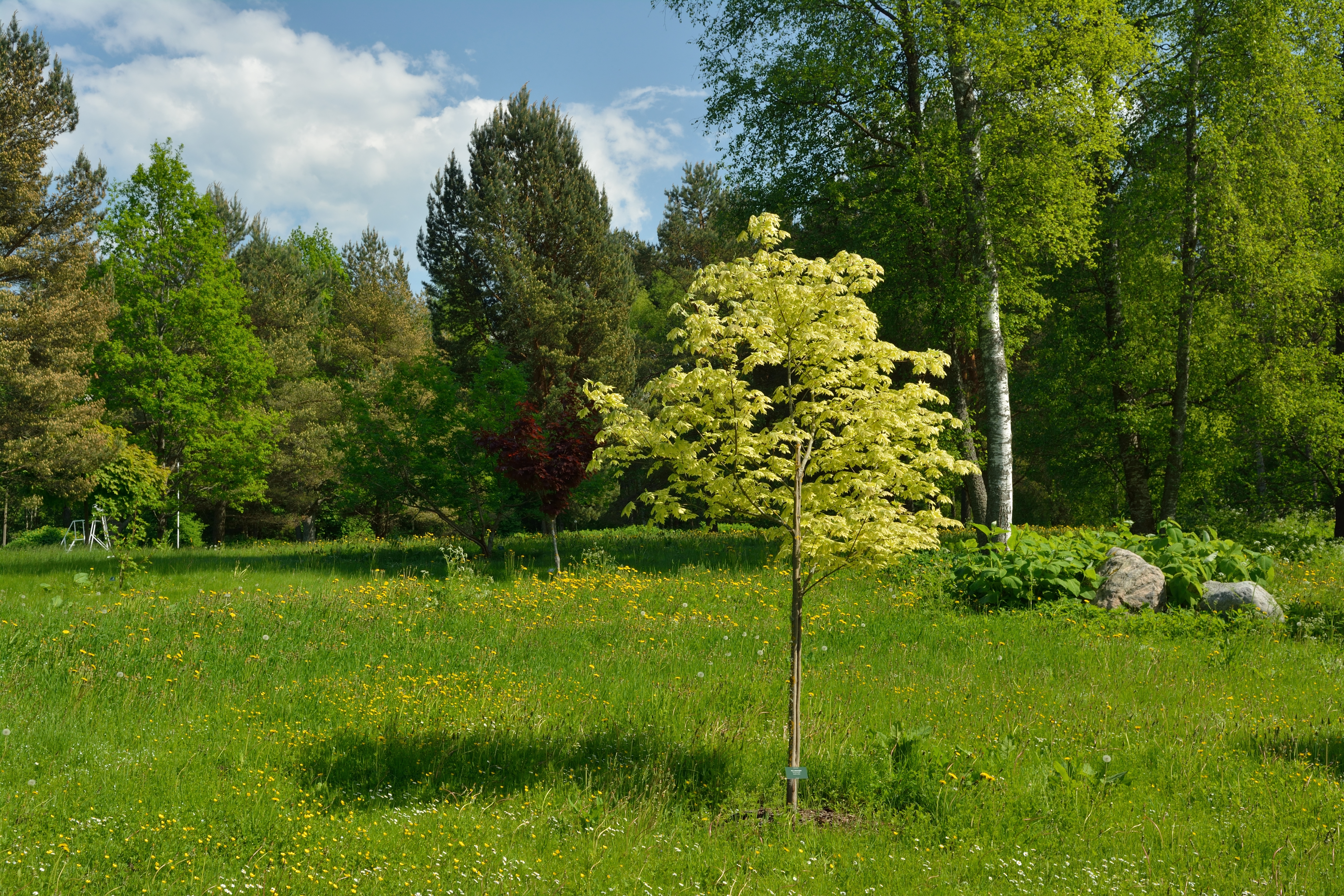 Acer platanoides 'Drummondii' in Tallinn Botanical Garden